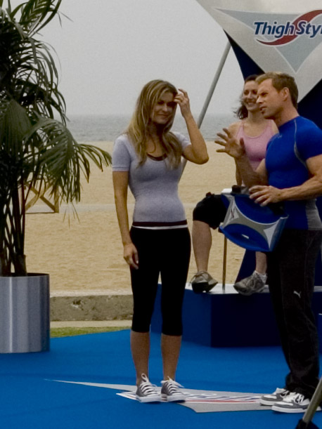 American actress Carmen Electra doing an infomercial for the "Thigh Styler".